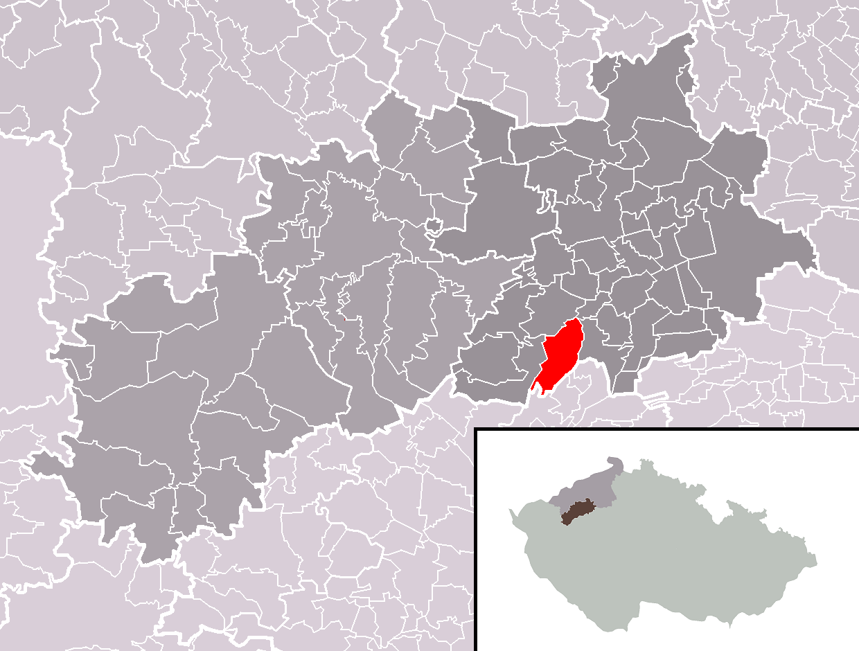 Location of Ročov market town within Louny District and administrative area of Louny as a Municipality with Extended Competence.